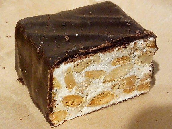 Camerino almond nougat coated with dark chocolate